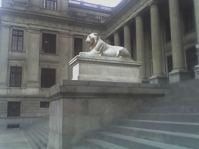 One of the marble lion statues, which were in Chorrillos and decorate the entry of the Palace of Justice.